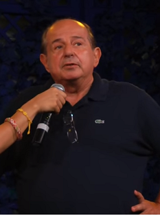 Image of the TV presenter Giancarlo Magalli taken from an interview released under the Creative Commons license - Image derived from full screen cropping and resized